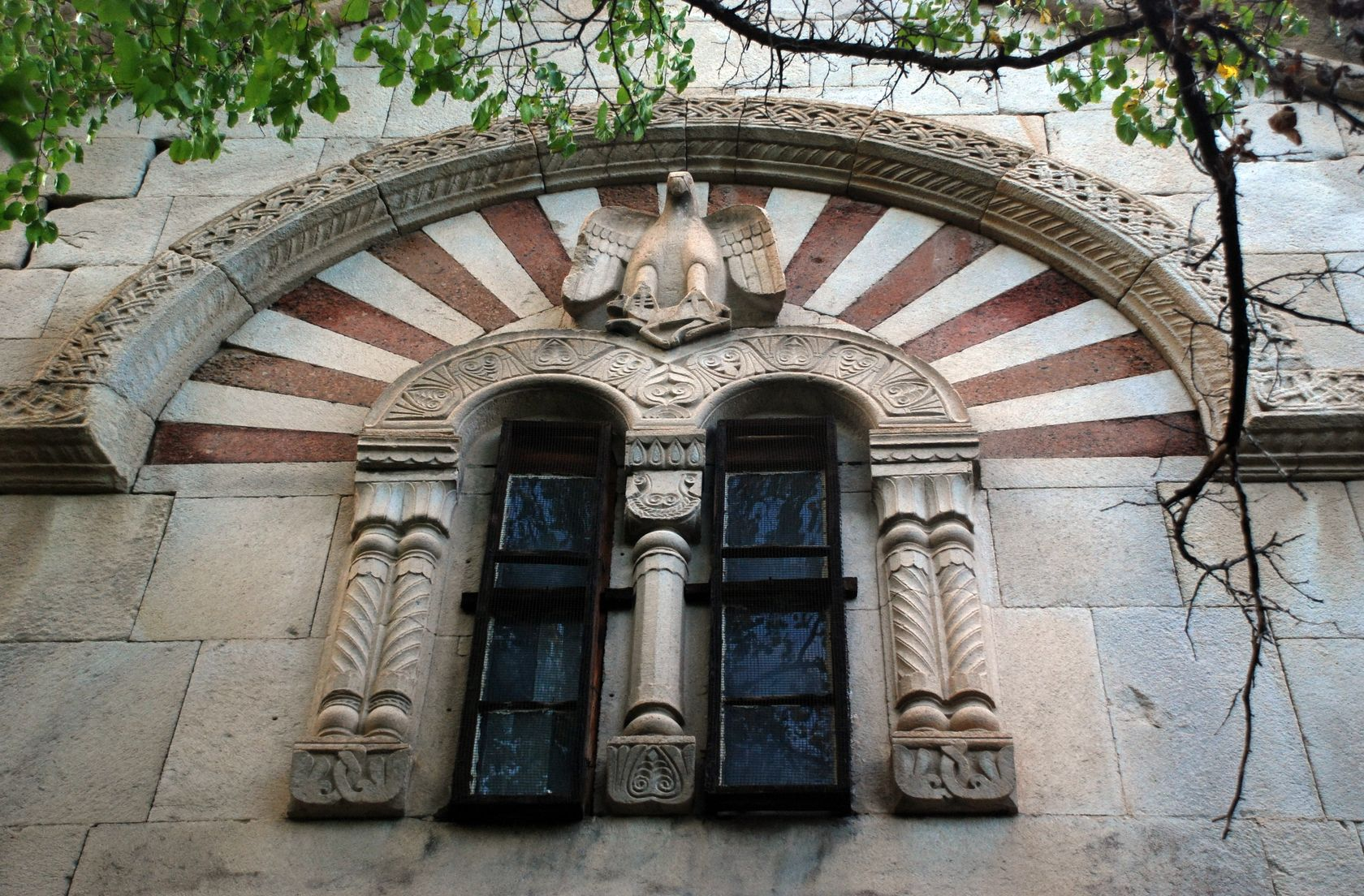 Haho (Khakhuli), Erzurum province, Turkey, eagle